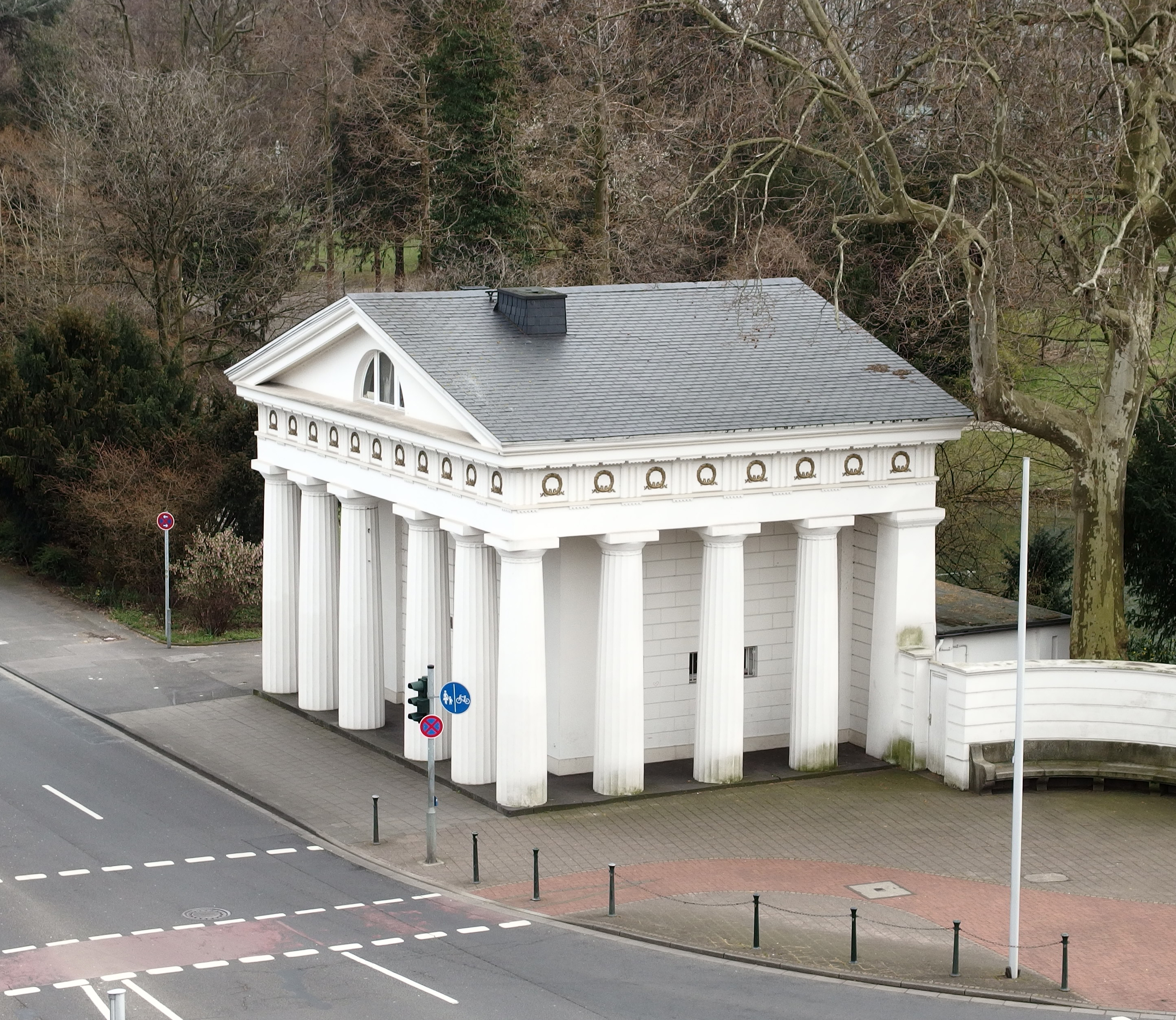 Ratinger Tor 2, Düsseldorf